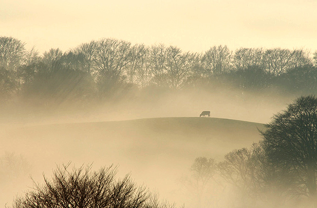 A grazing cow at Mouswald Cleuch Viewed in misty conditions from the adjoining square to the north.